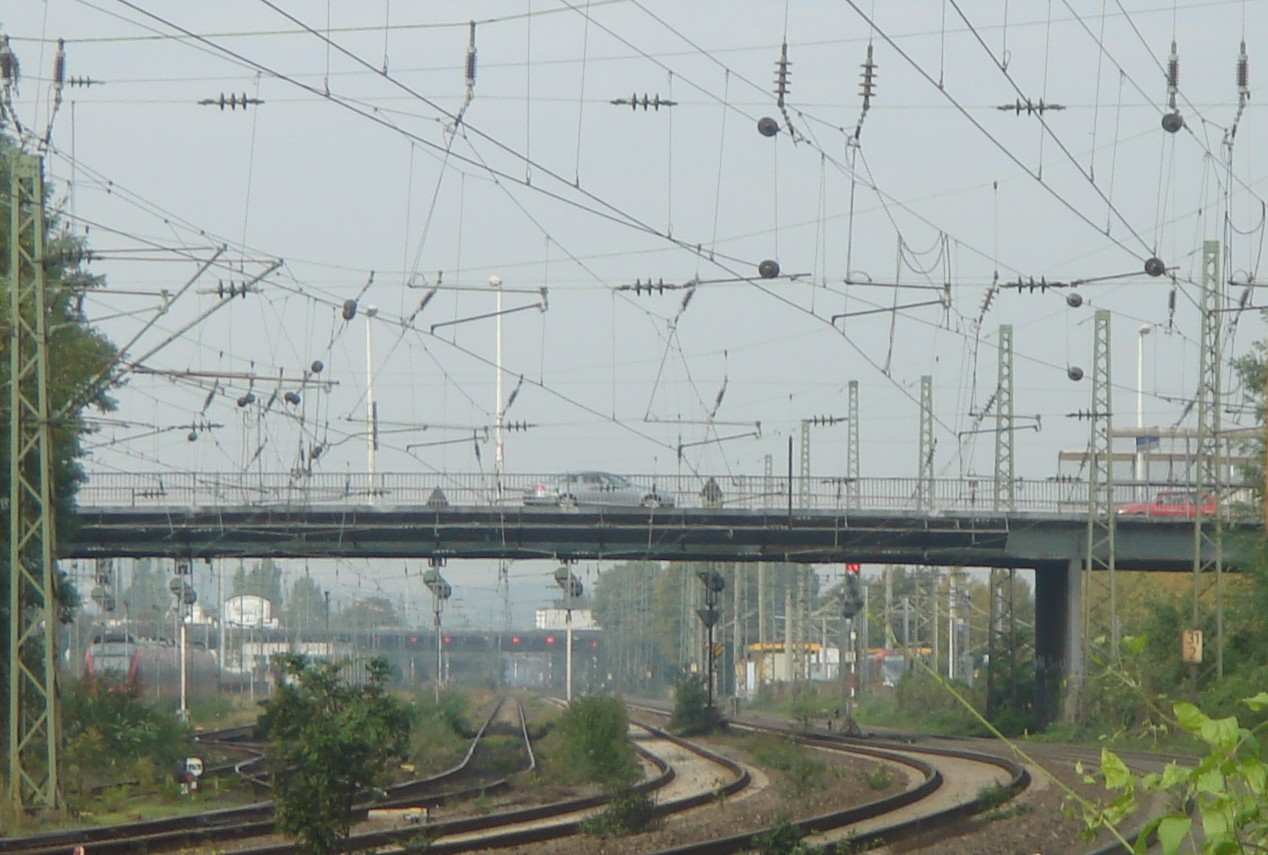 The bridge Viktoriabrücke in Bonn, Germany, seen from the east (parking lots of main station).